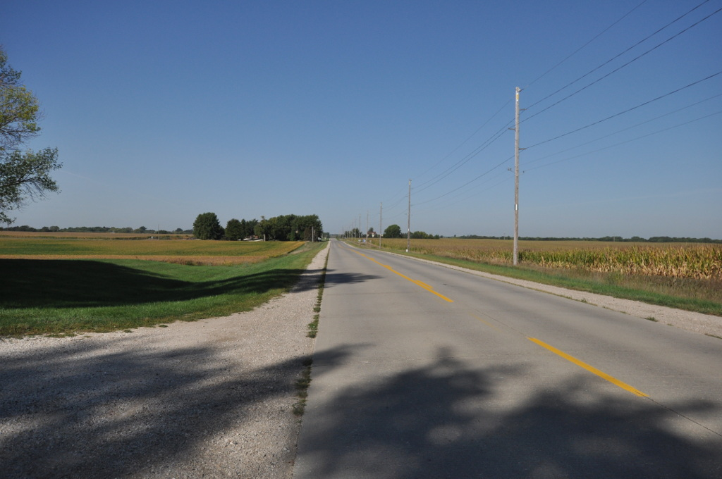 Lincoln Highway-Buttrick's Creek to Grand Junction Segment, Greeke County, Iowa.